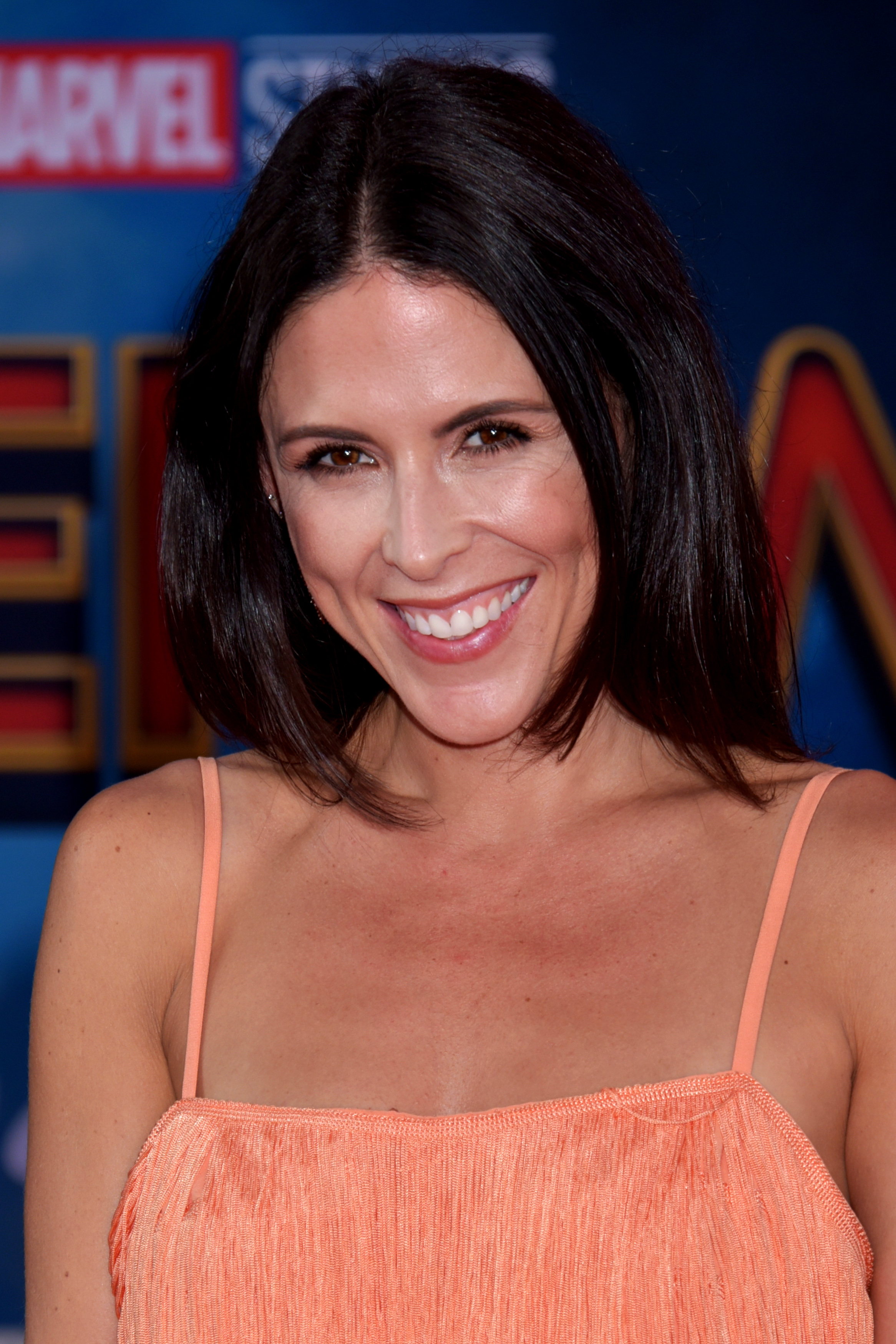 Joslyn Davis at the Premiere of "Spider-Man: Far From Home" in Hollywood California on June 26, 2019 - Photo by Glenn Francis of